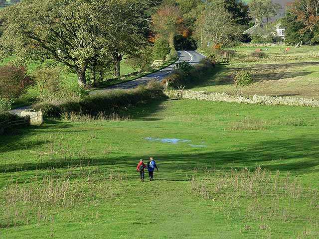 Hadrian's Wall National Trail above Planetrees Hadrians Wall National Trail which runs 135 km from Bowness-on-Solway to Wallsend is here seen dropping down into the North Tyne valley from the east. The trail keeps close to the Military Road, B6318 Chollerford to Heddon-on-the-Wall which is seen here.